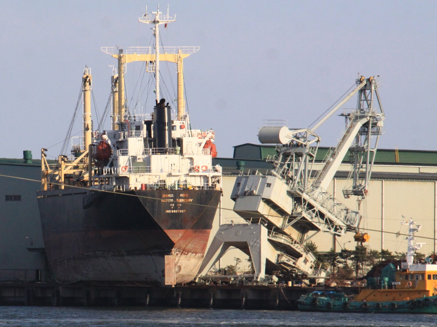 Crop of